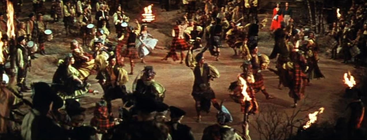 number Gathering of the Clans in Brigadoon - trailer (cropped screenshot)